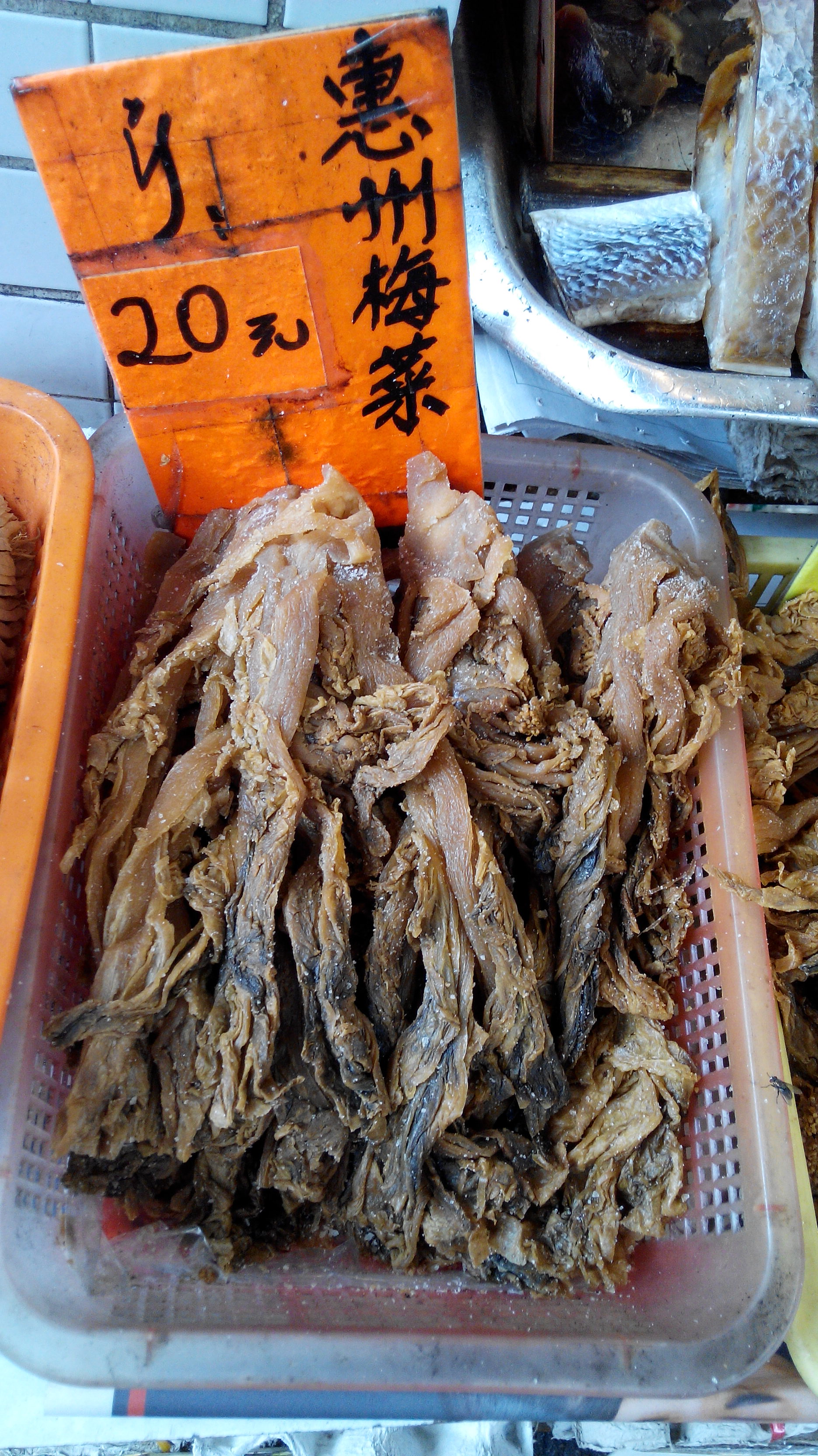 渣華道街市, 梅菜